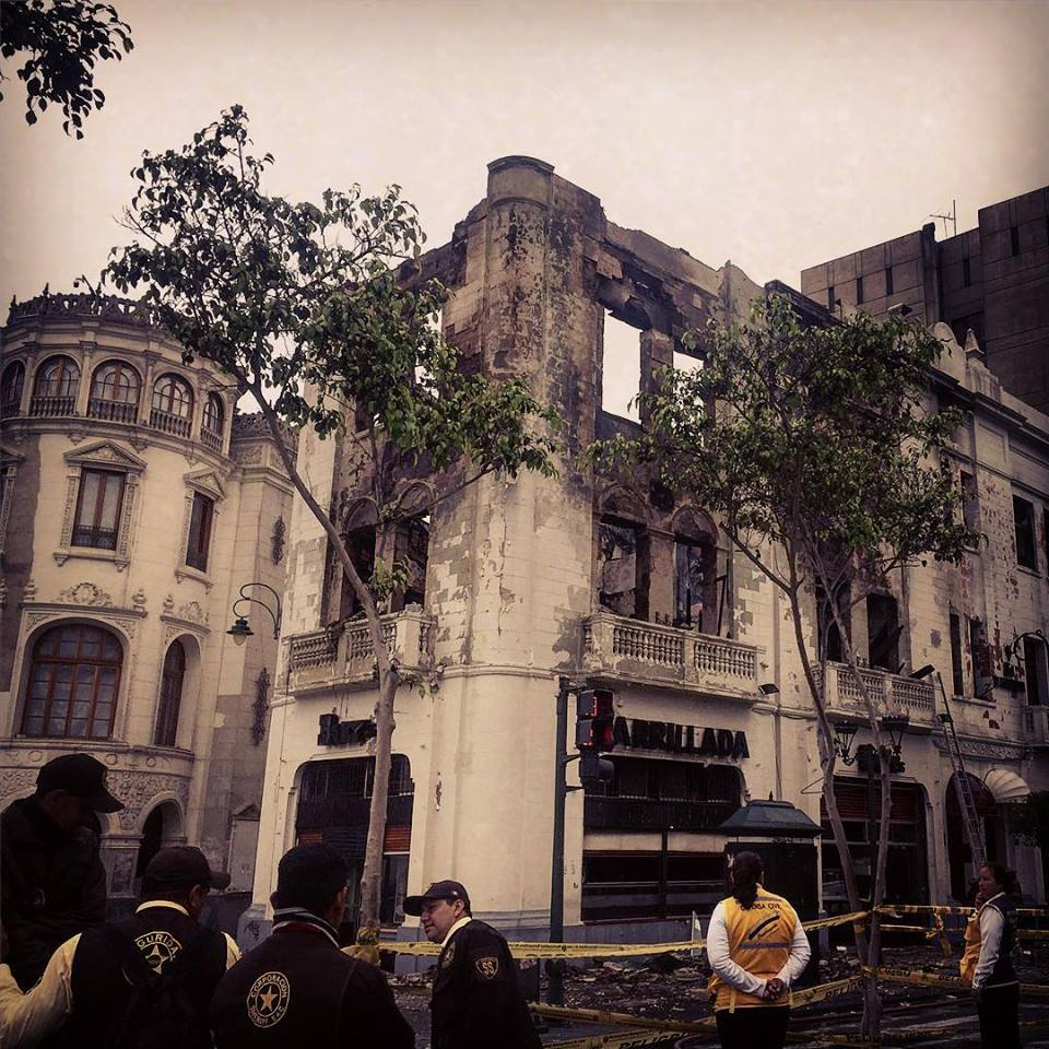 Edificación post incendio en la Plaza San Martin